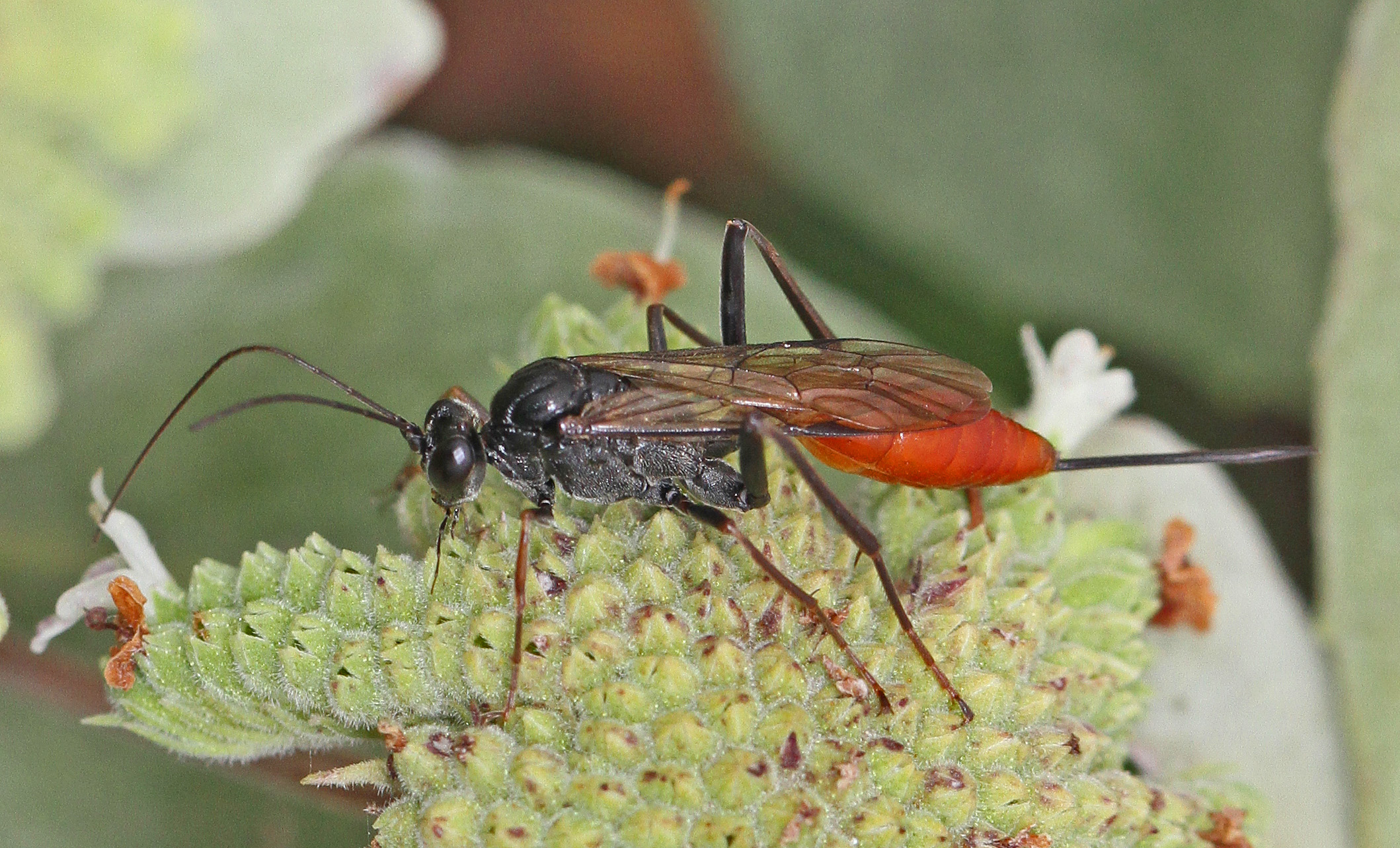 Cryptus albitarsis, Meadowood Farm SRMA, Mason Neck, Virginia